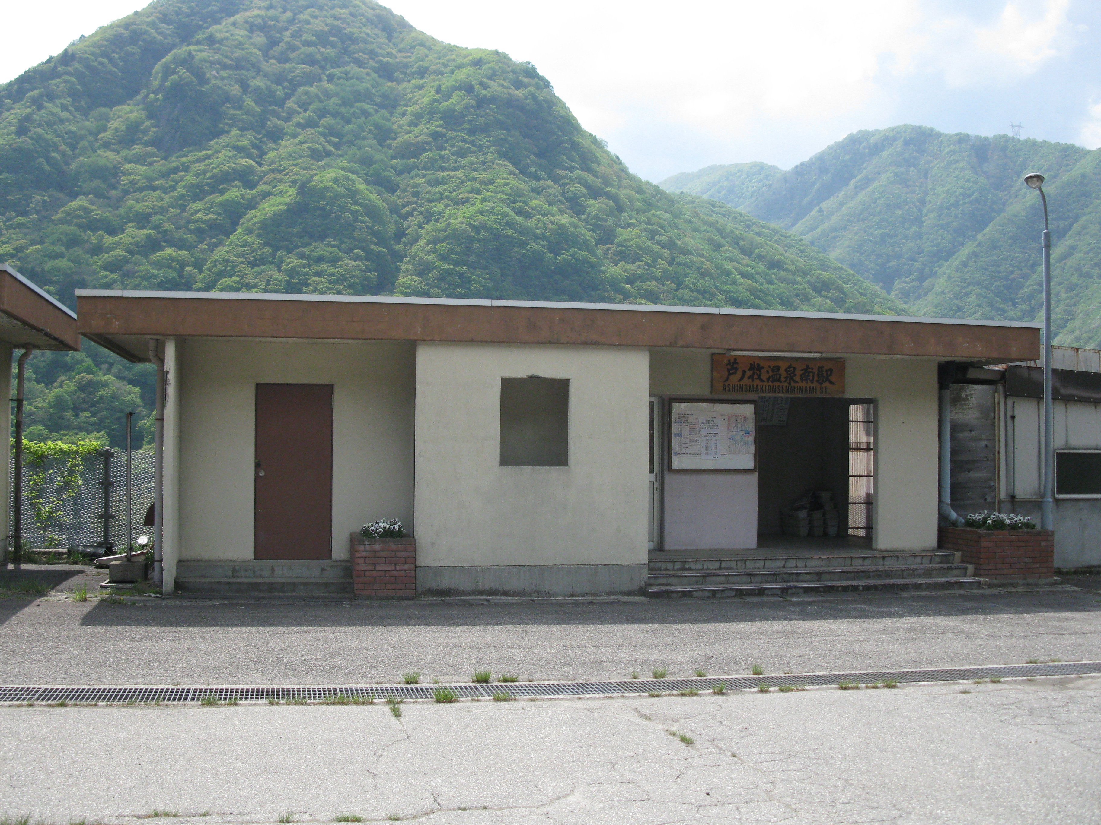 The building of Ashinomaki-Onsen-Minami Station on the Aizu Railway Aizu Line